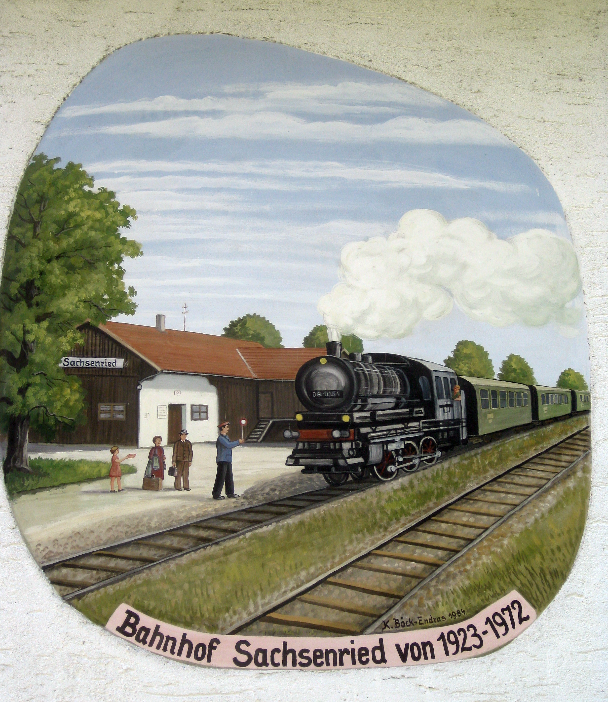 former train station of Sachsenried (today part of Schwabsoien)